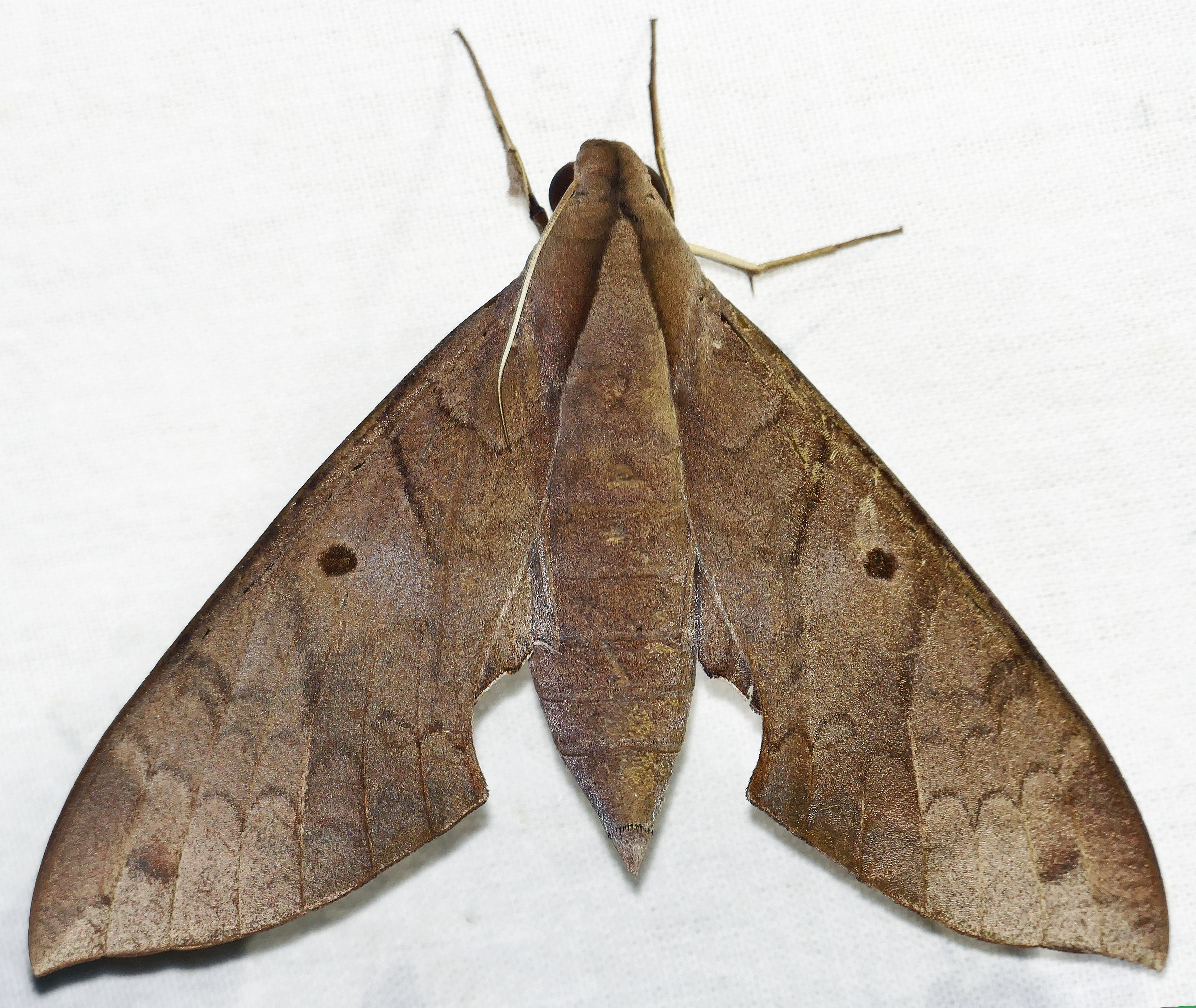 D6 Road, Roura, French Guyana, FRANCEHawkmoth (Pachylia darceta)